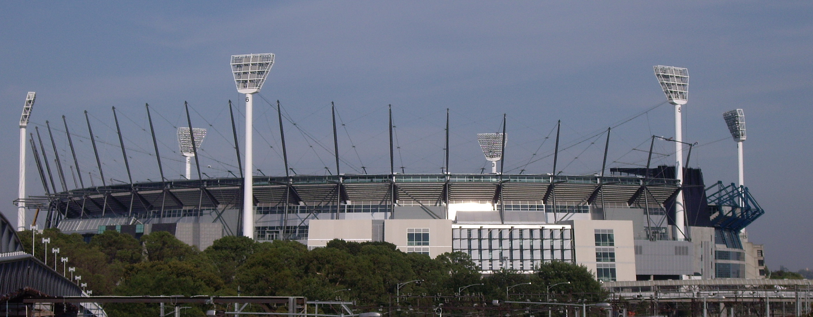 Melbourne Cricket Ground - fully renovated in time for the Commonwealth Games